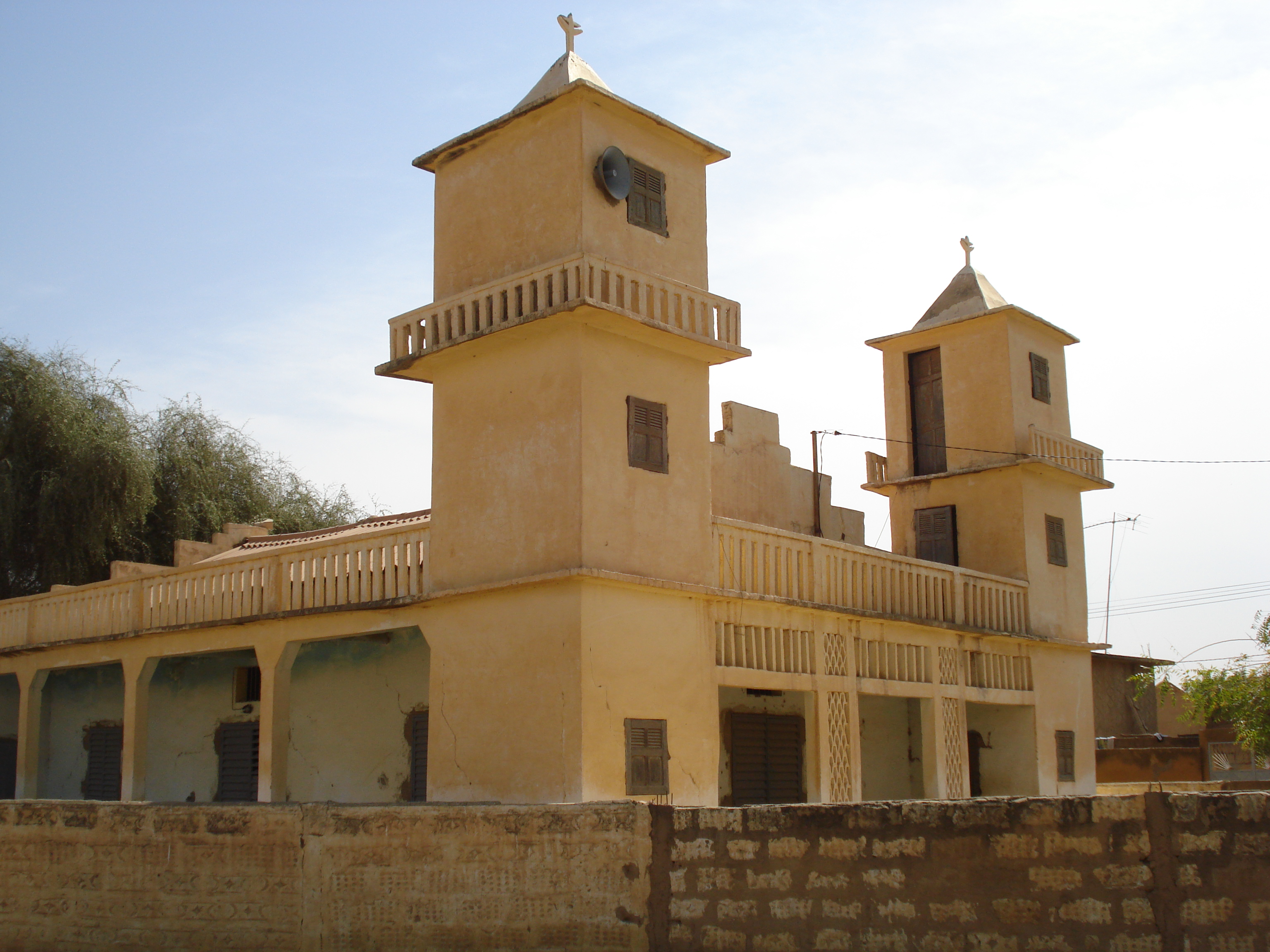 text